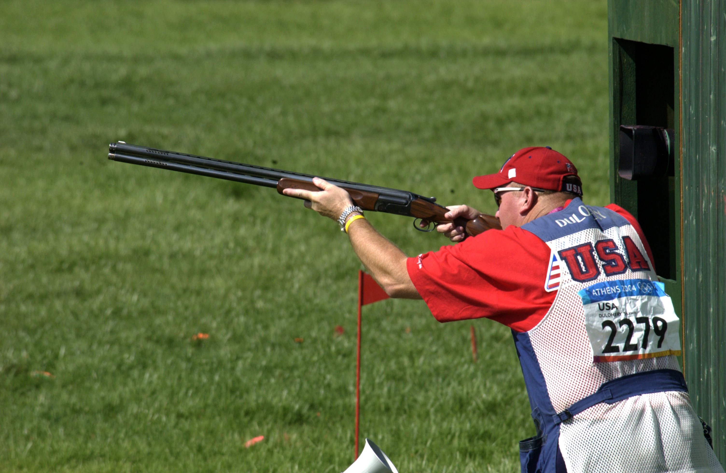 Army Sgt. 1st Class Shawn Dulohery takes aim during the finals round of Men's Skeet competition at Markopoulo Shooting Centre during the Athens 2004 Olympics in Greece on Aug. 22, 2004. Dulohery was third in a dramatic 5-way shoot-off in the qualifying round, shot a perfect final round, and finished 5th in another dramatic 5-way shoot-off.